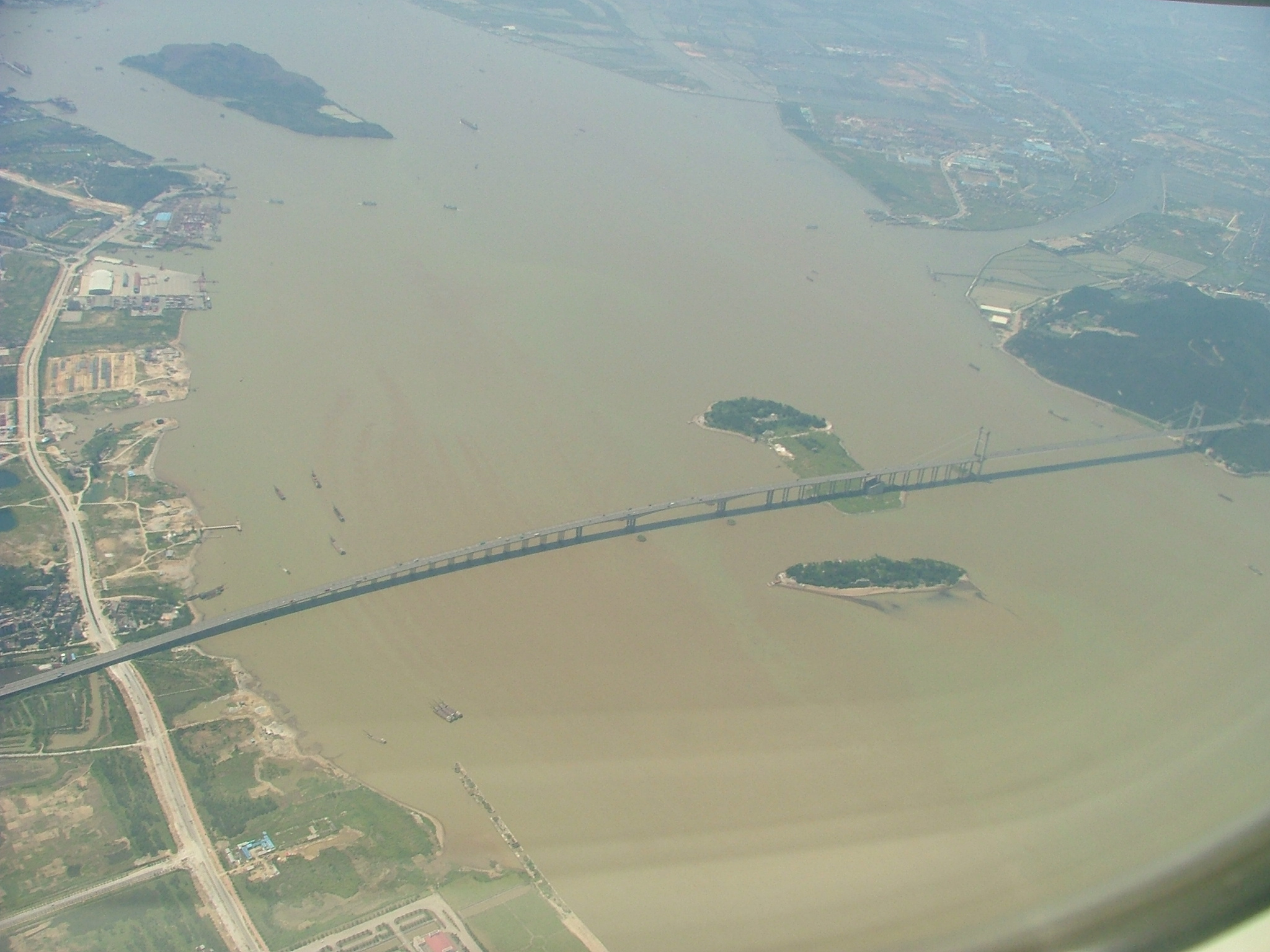 Aerial view of Fumun Bridge 粵語: 飛機上俯瞰虎門大橋